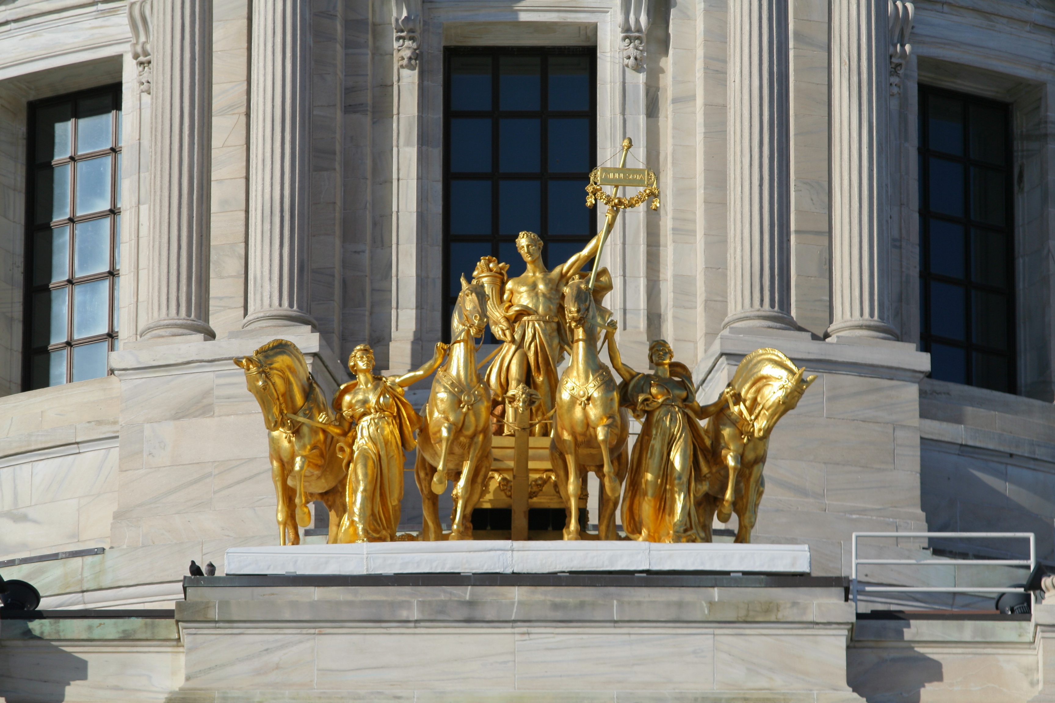 Progress of the State quadriga in front of the dome on the Minnesota State Capitol in Saint Paul, Minnesota.